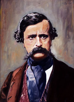 Richard Blanshard, Governor of Vancouver Island, 1849-1851